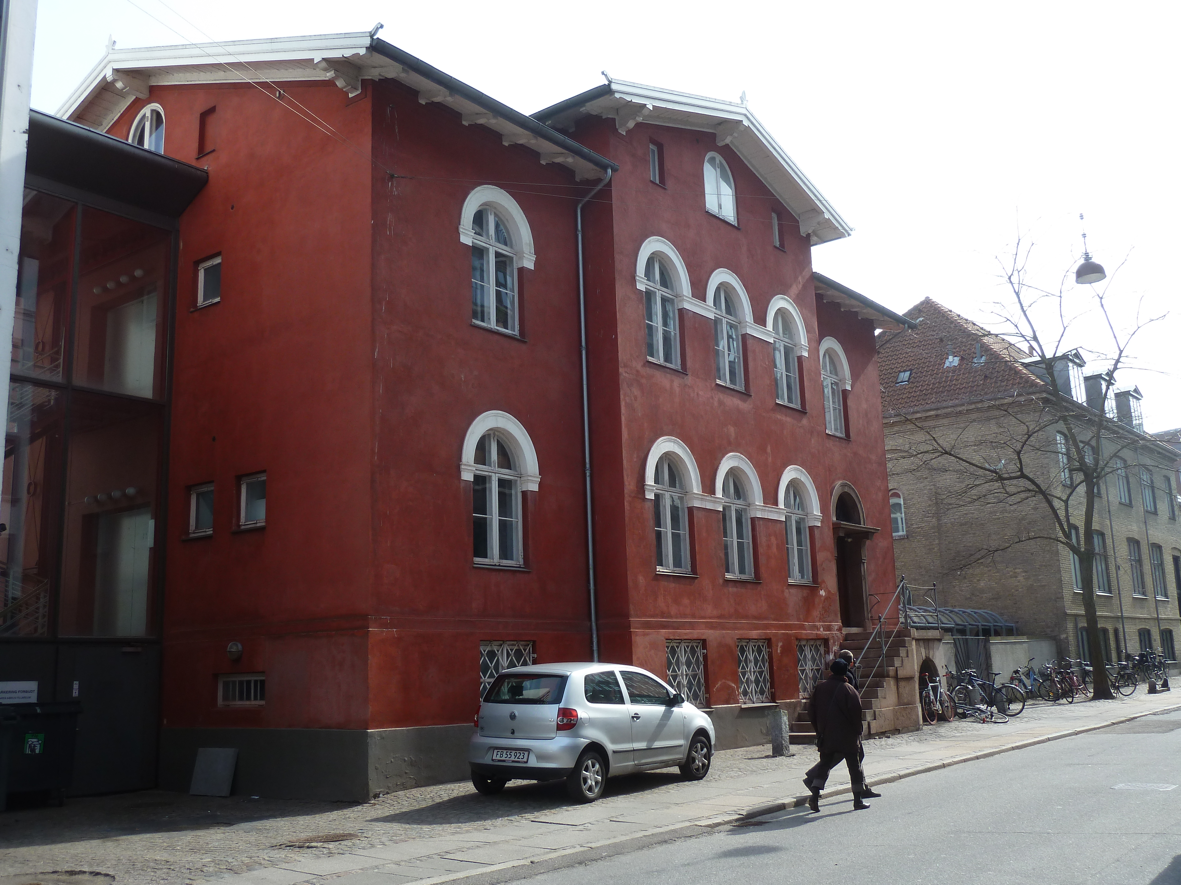 Ewaldsvej 5 in Copenhagen, Denmark